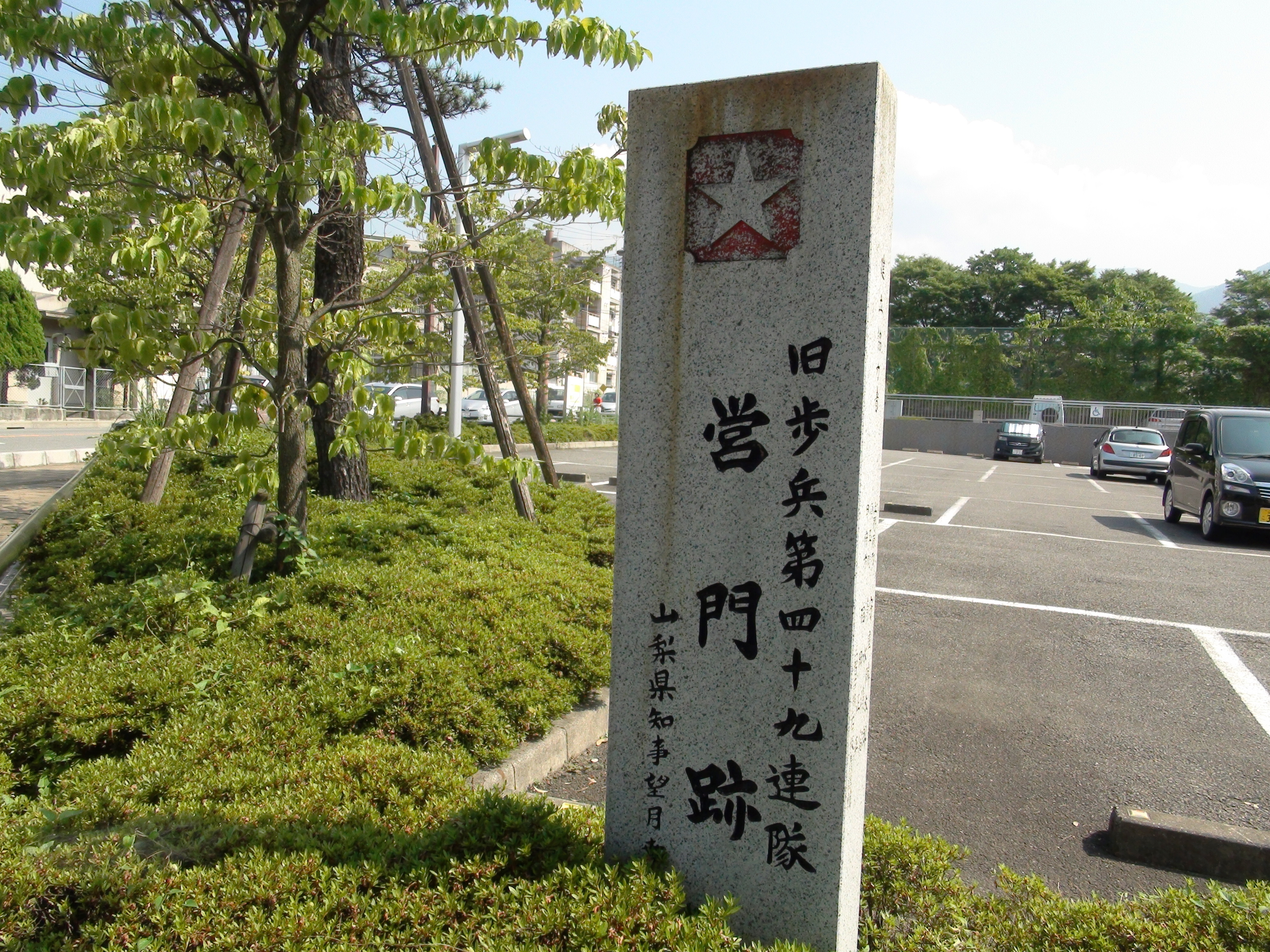 Japanese Army Infantry Regiment №49 Ruins Kofu City